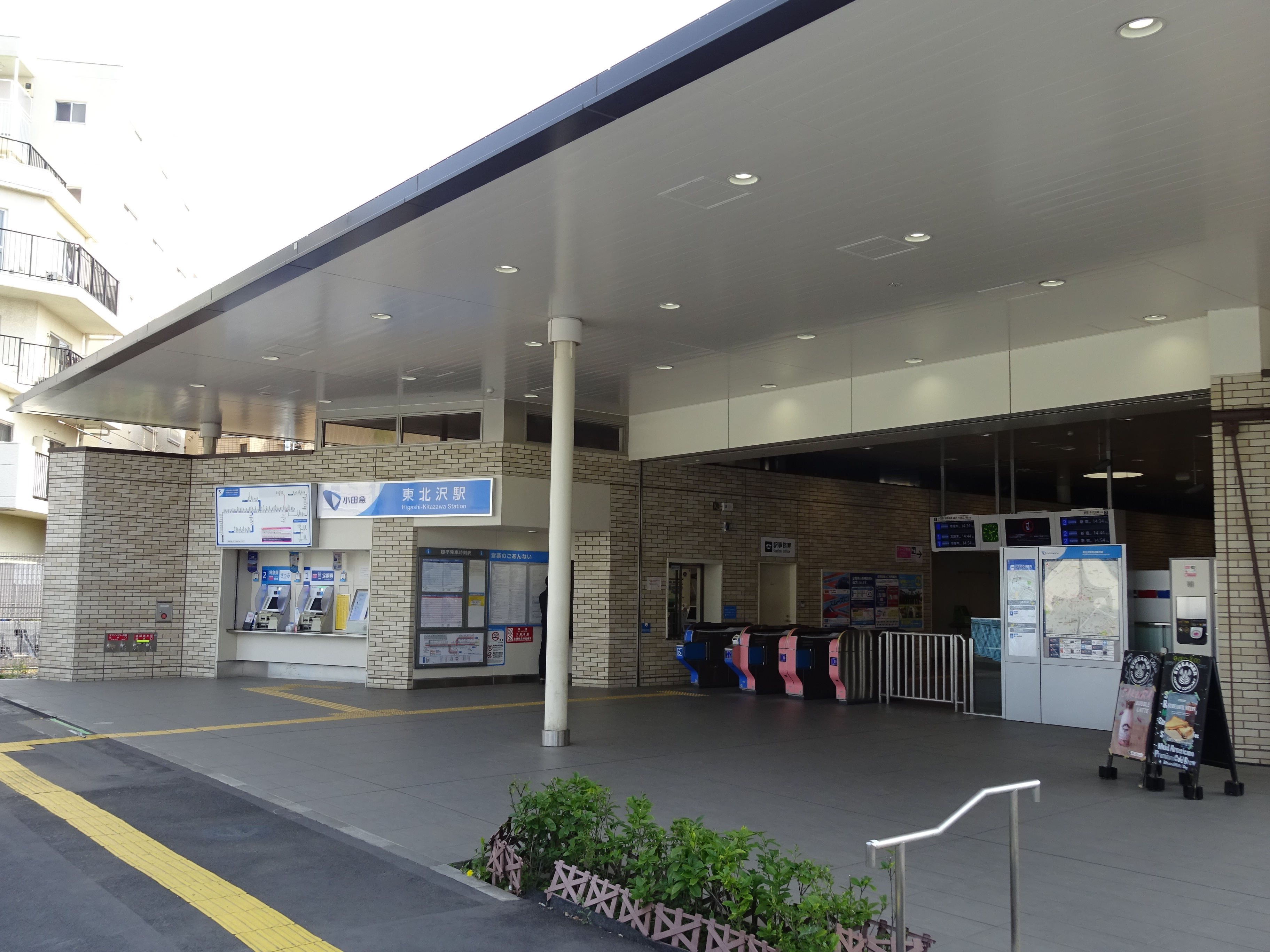 East entrance of Higashi-Kitazawa Station